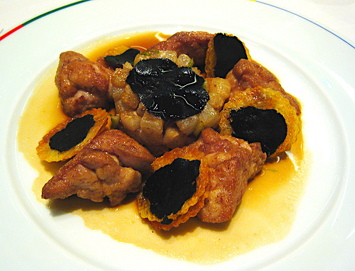 Crispy veal sweetbreads with diced parsnips, petit potato and black truffle "sandwiches."